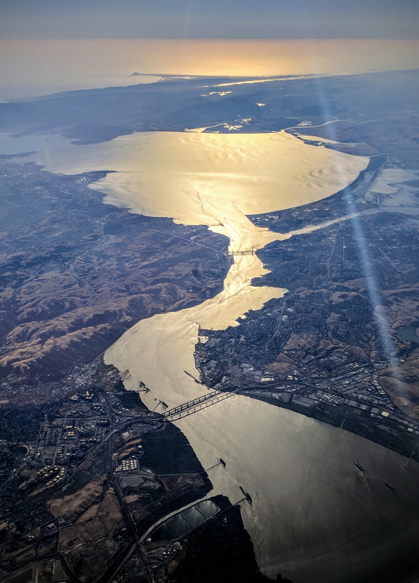 Suisun Bay (bottom), Carquinez Strait (with bridges crossing it), and San Pablo Bay (upper center), with Point Reyes in the background; evening aerial shot looking west into the sun